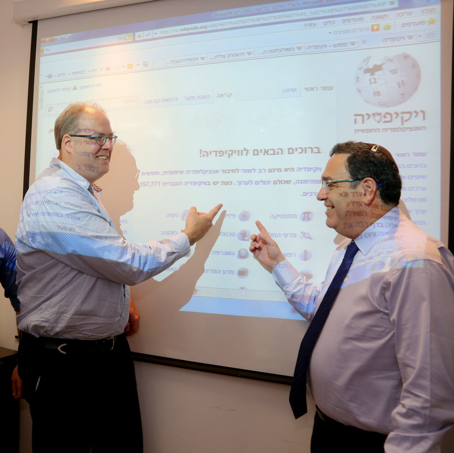 From left to right: Jan-Bart de Vreede, Chair of the Wikimedia Foundation Board of Trustees Rabbi Shai Piron, Israel's Education Minister